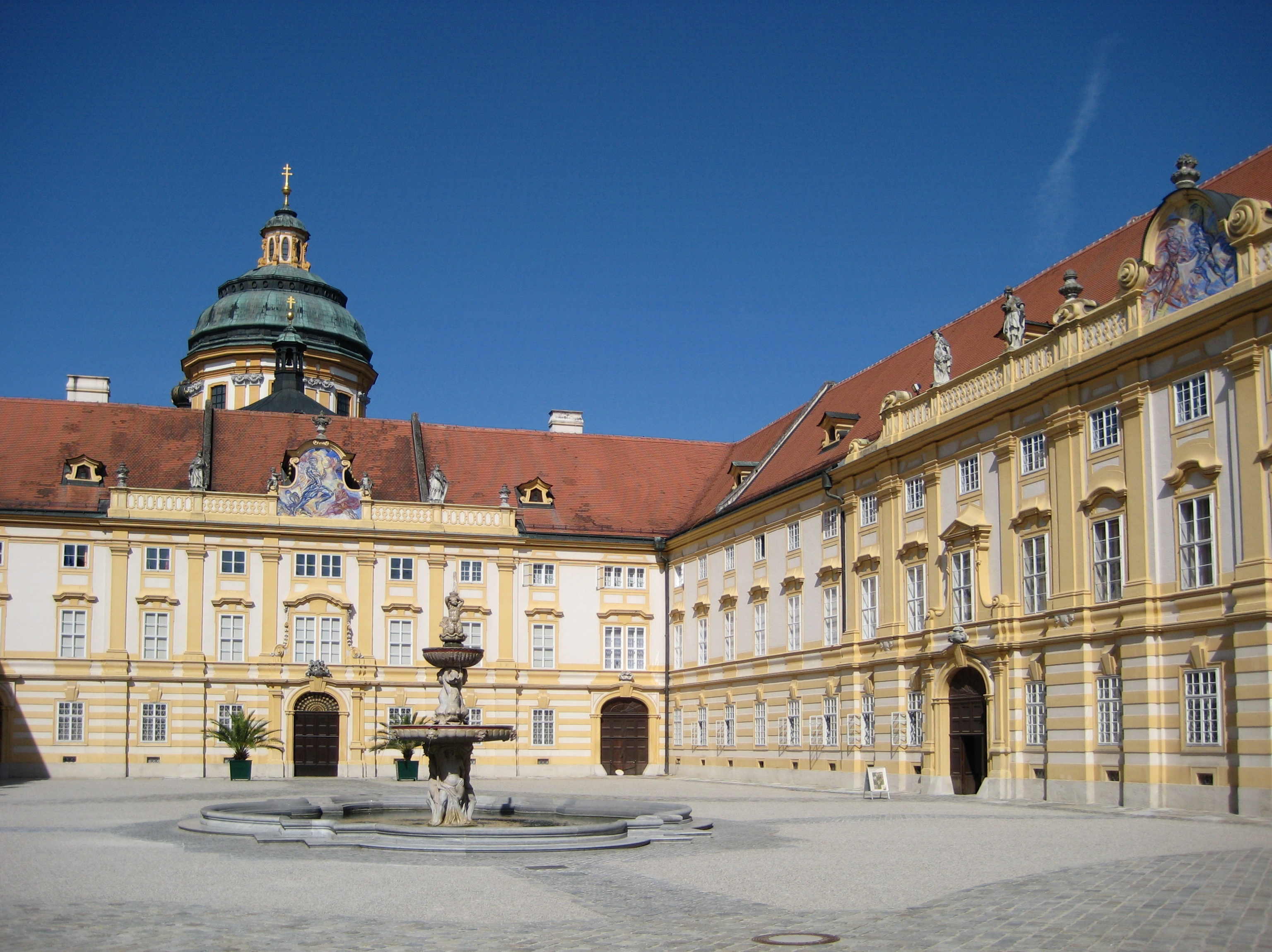 Melk Abbey, Lower Austria, prelate's courtyard